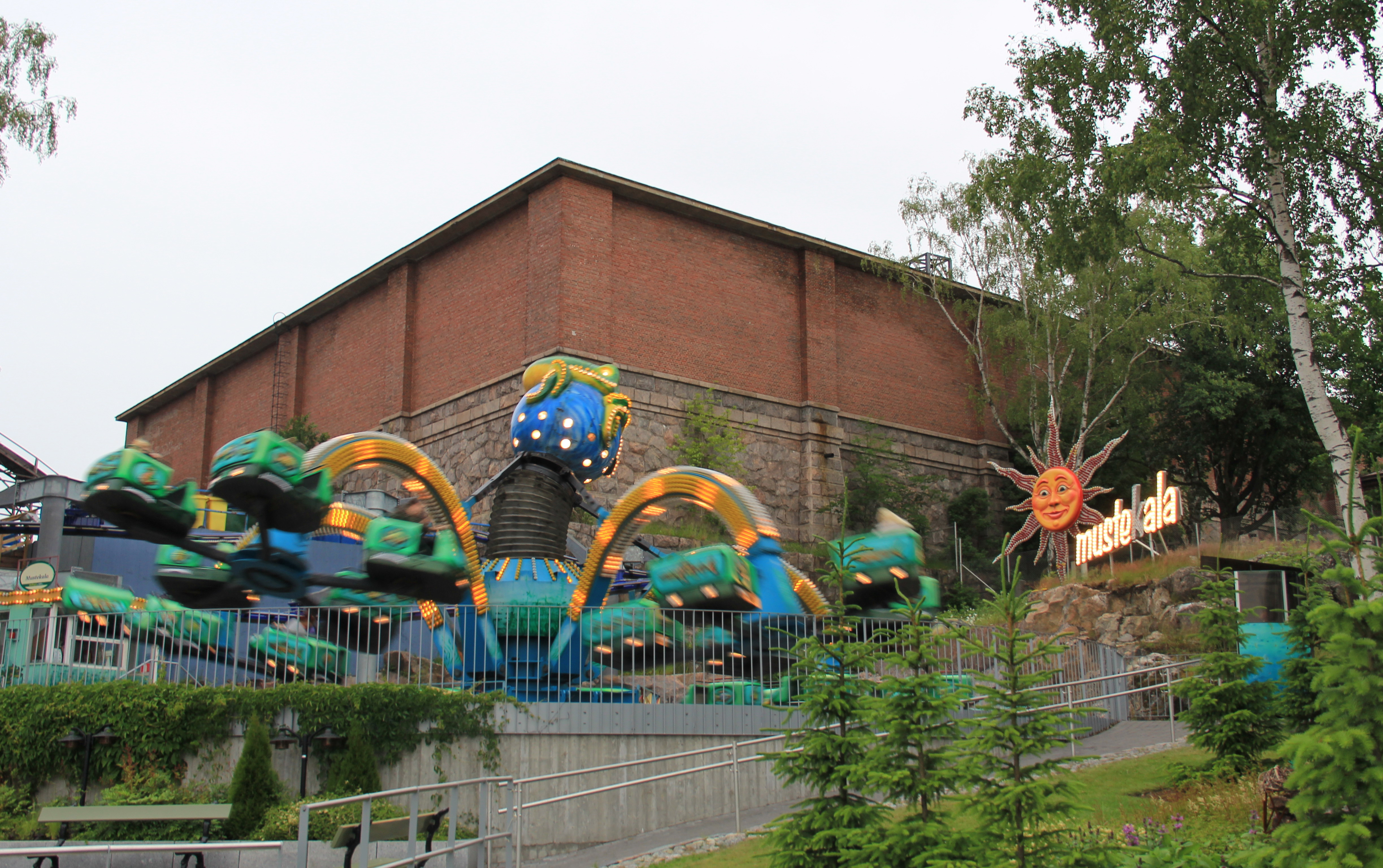 Former Alppila Water tower, Linnanmäki, Alppila, Helsinki, Finland. Completed 1876. Front: Mustekala (Polyp, Octopus), an amusement park ride.